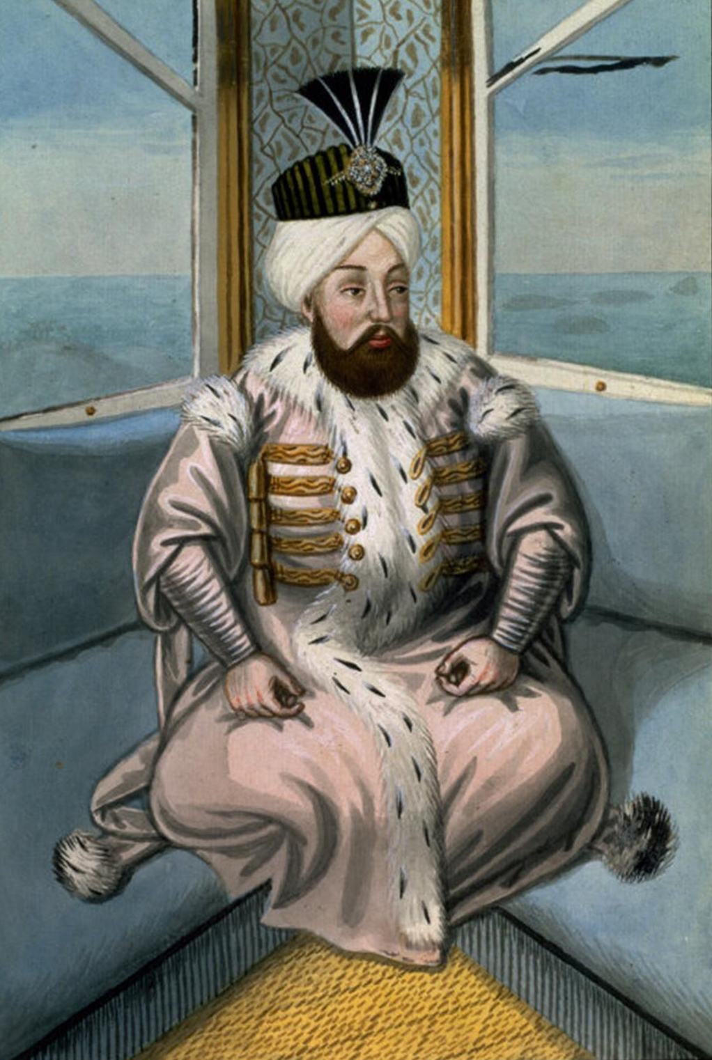 Portrait of Suleiman II, Sultan of the Ottoman Empire (1687-1691). The portrait has been printed using the Giclée process.